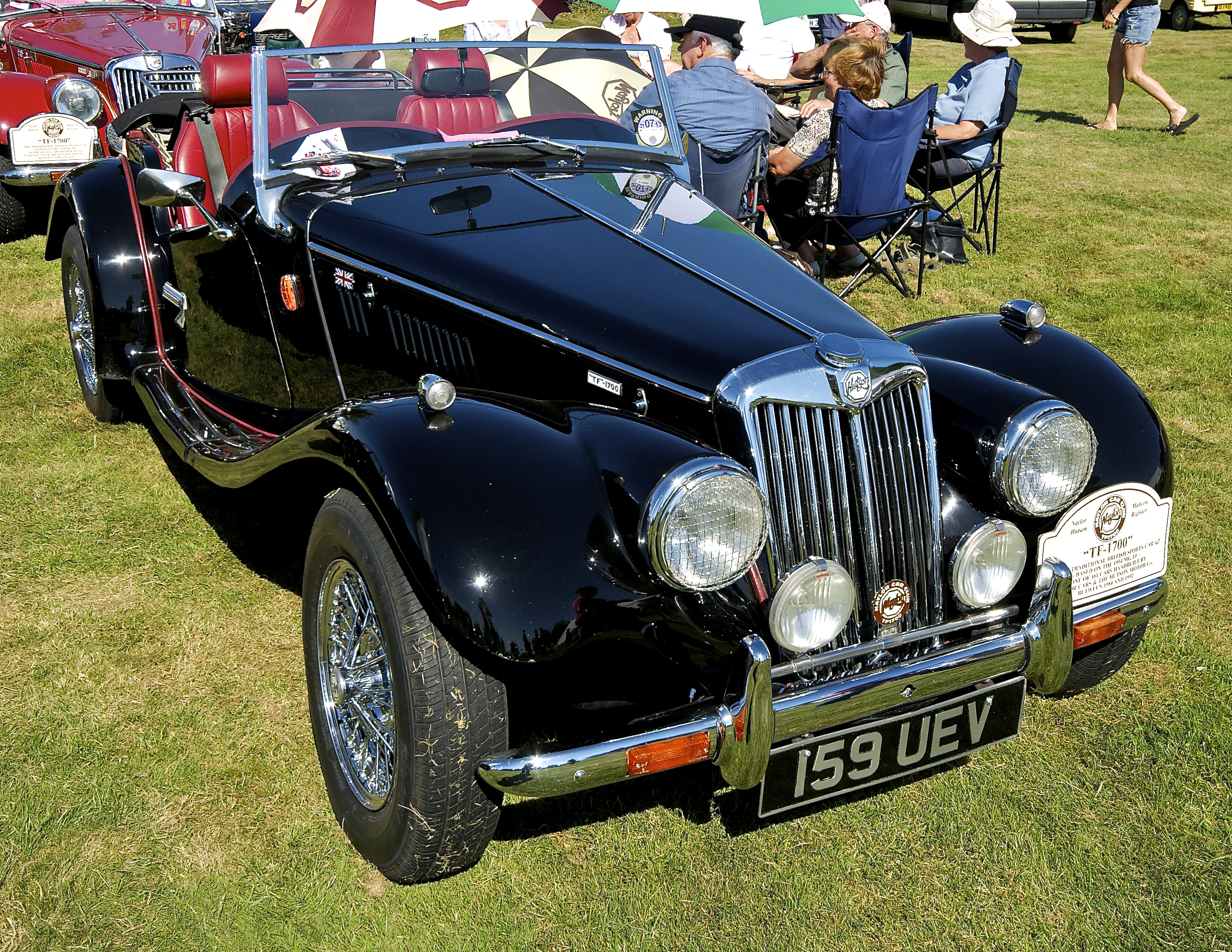 1986 Hutson TF 1700, a continuation of the Naylor project at the Classic Cars By The Lake show, in the UK 2012. This car has Hutson badges but is registered as a Naylor, and first date of reg is in August 1986 - which seems a bit early for it to be a Hutson. Mysterious.